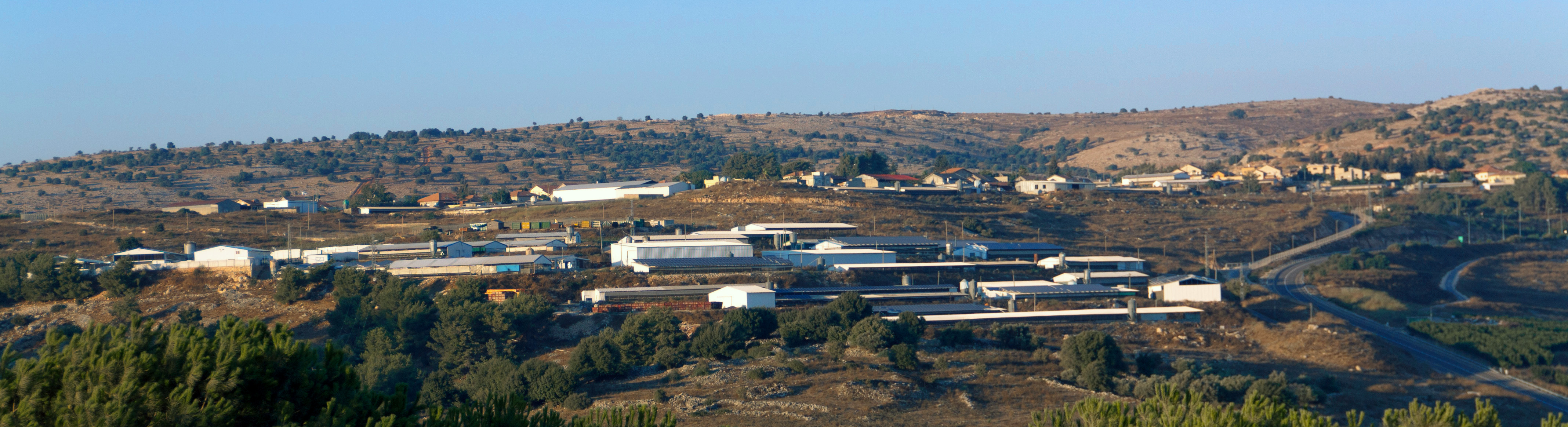 Avivim